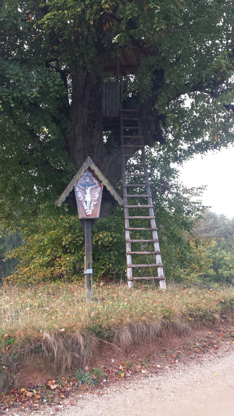 Šentanel, Slovenija. Near farm Dvornik